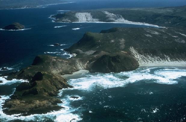 Channel Islands National Park from en: NPS public domain image archive